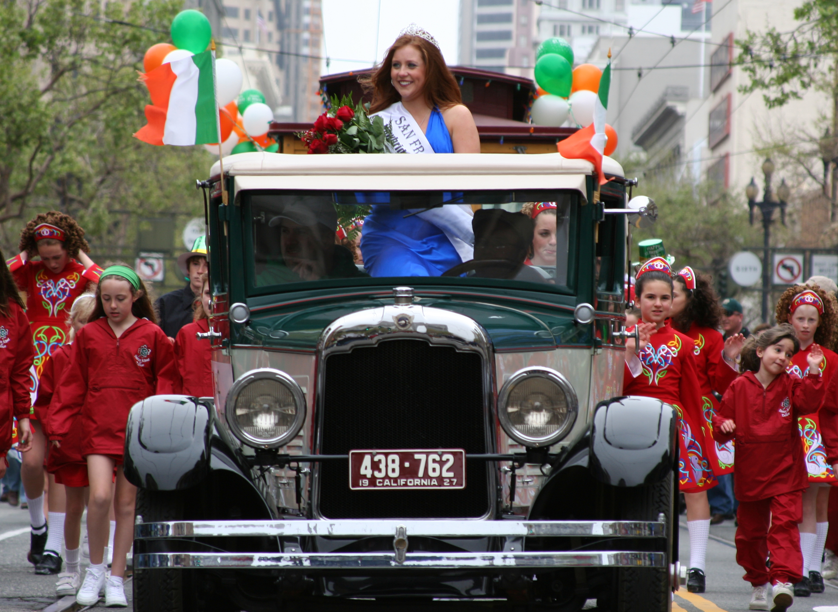 A 1927 Reo Flying Cloud Sport Roadster at Saint Patrick's Day parade, San Francisco, with Miss San Francisco